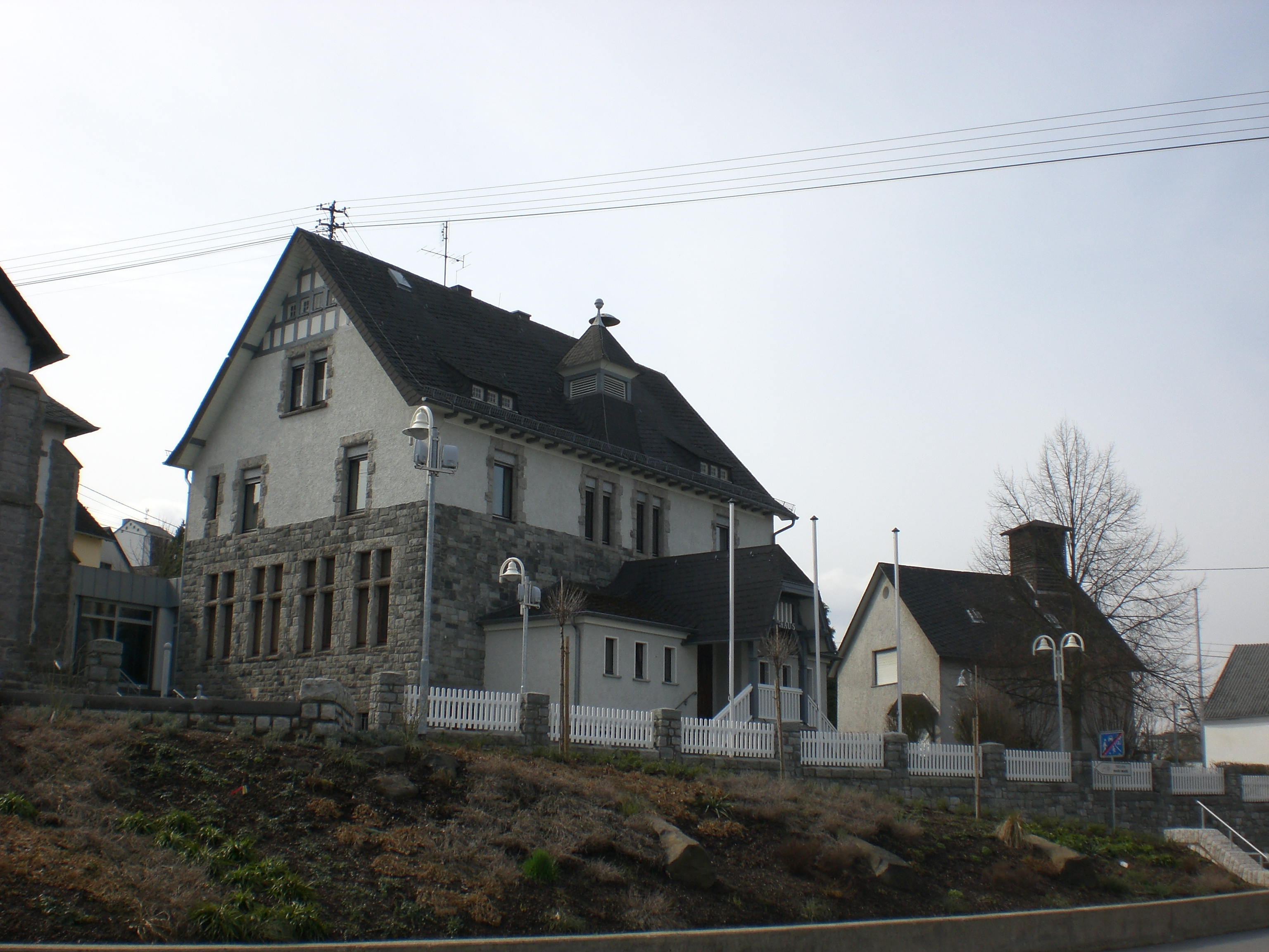 Staudt, old school